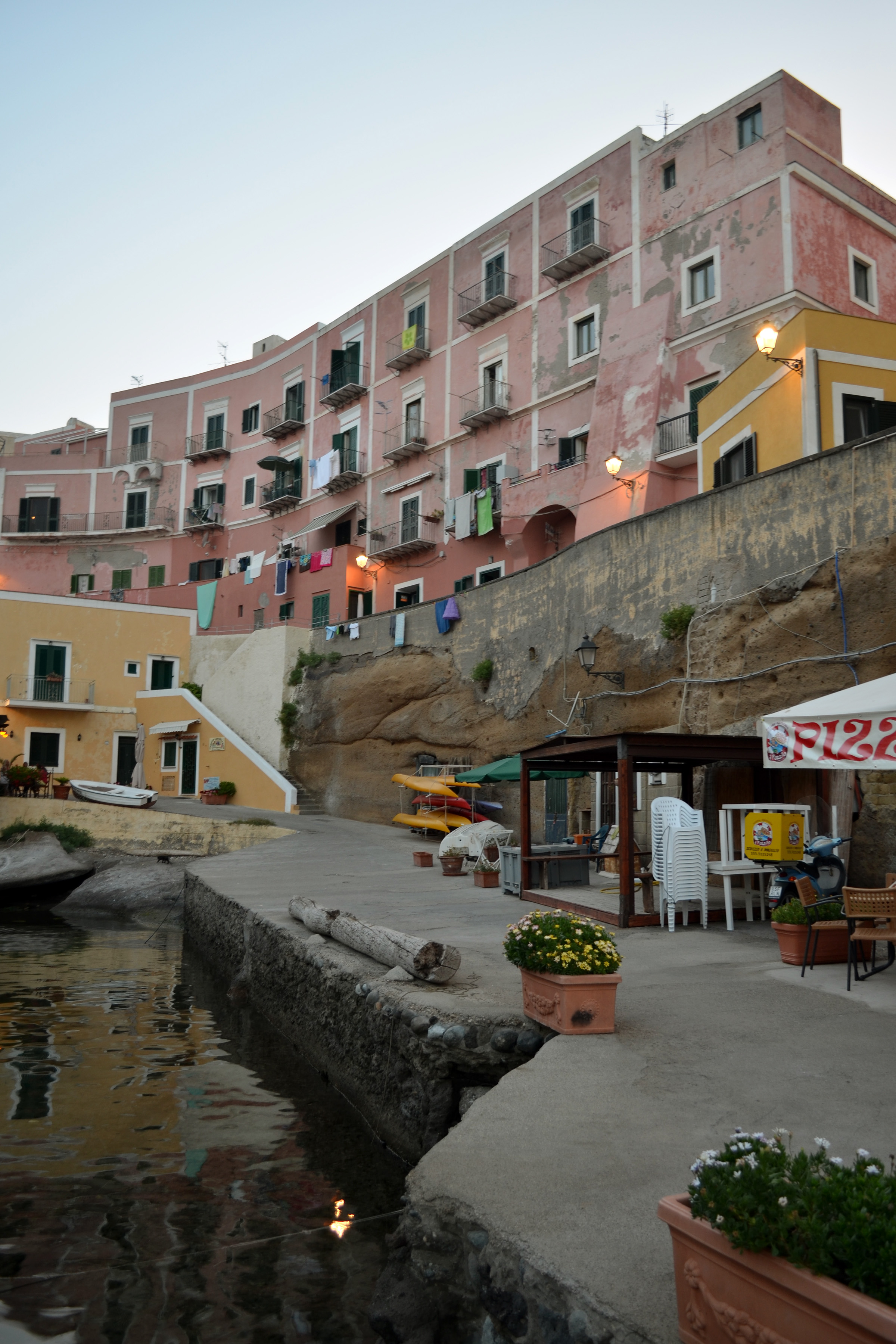 Roman Port of Ventotene, Pontine Islands, Italy